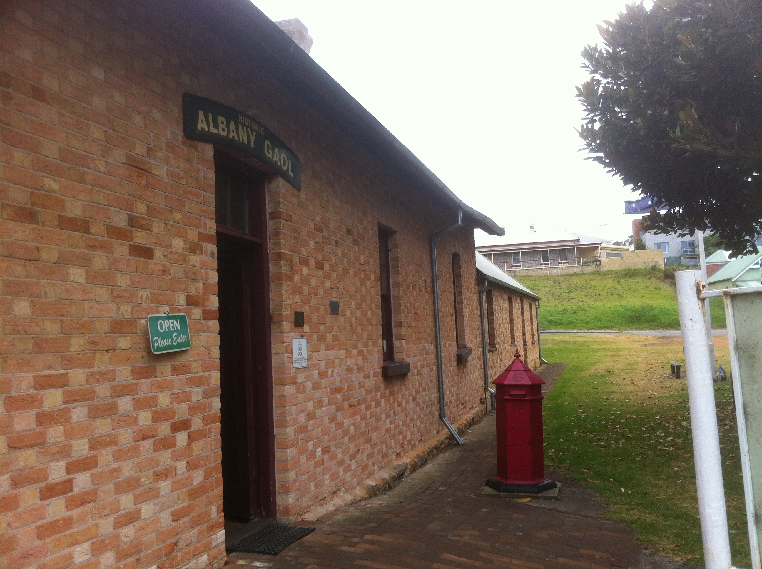 Albany Convict Gaol main enterance